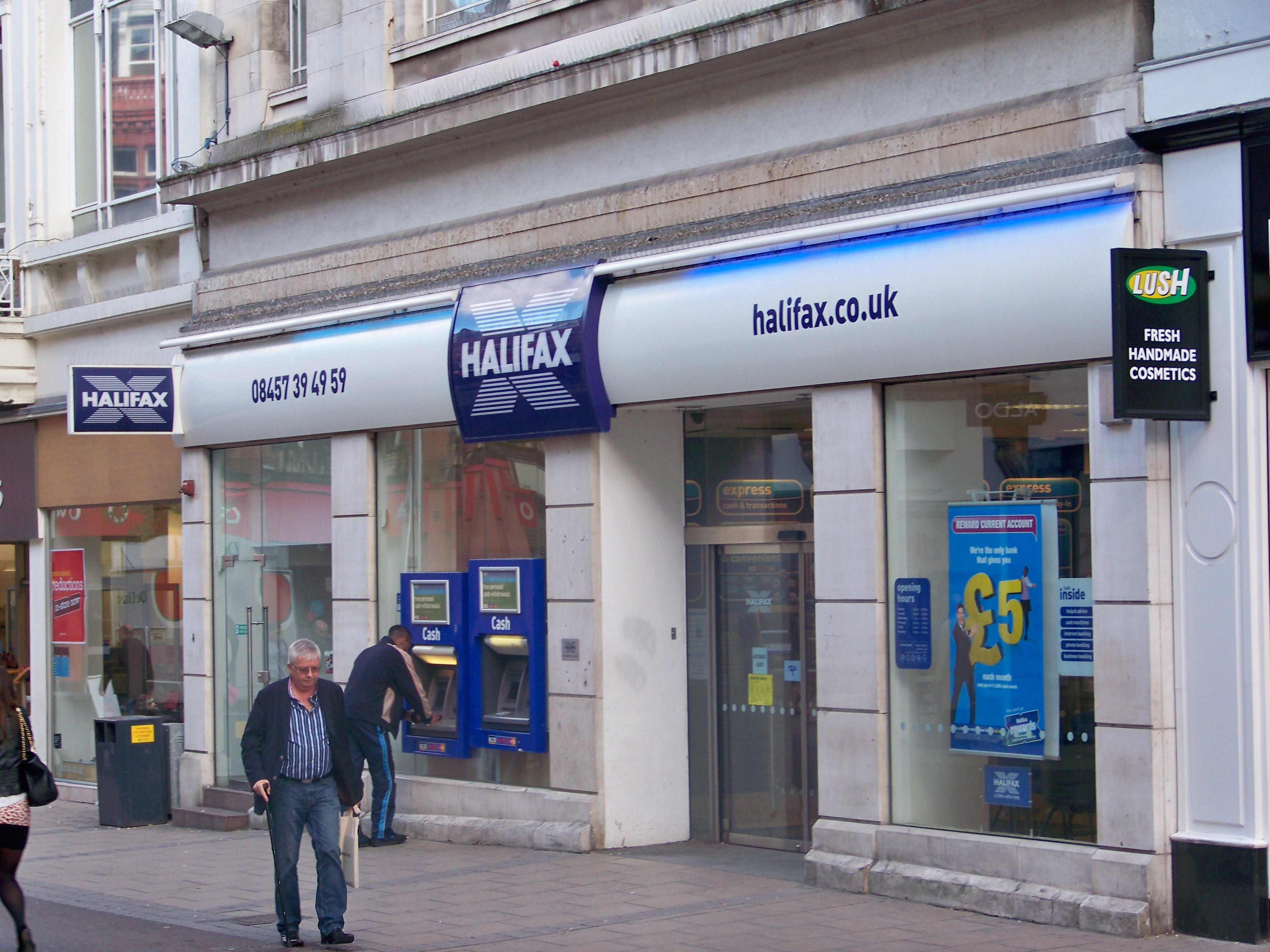 The Halifax bank on Commercial Street in Leeds, West Yorkshire. Taken on the evening of Thursday the 27th of May 2010.